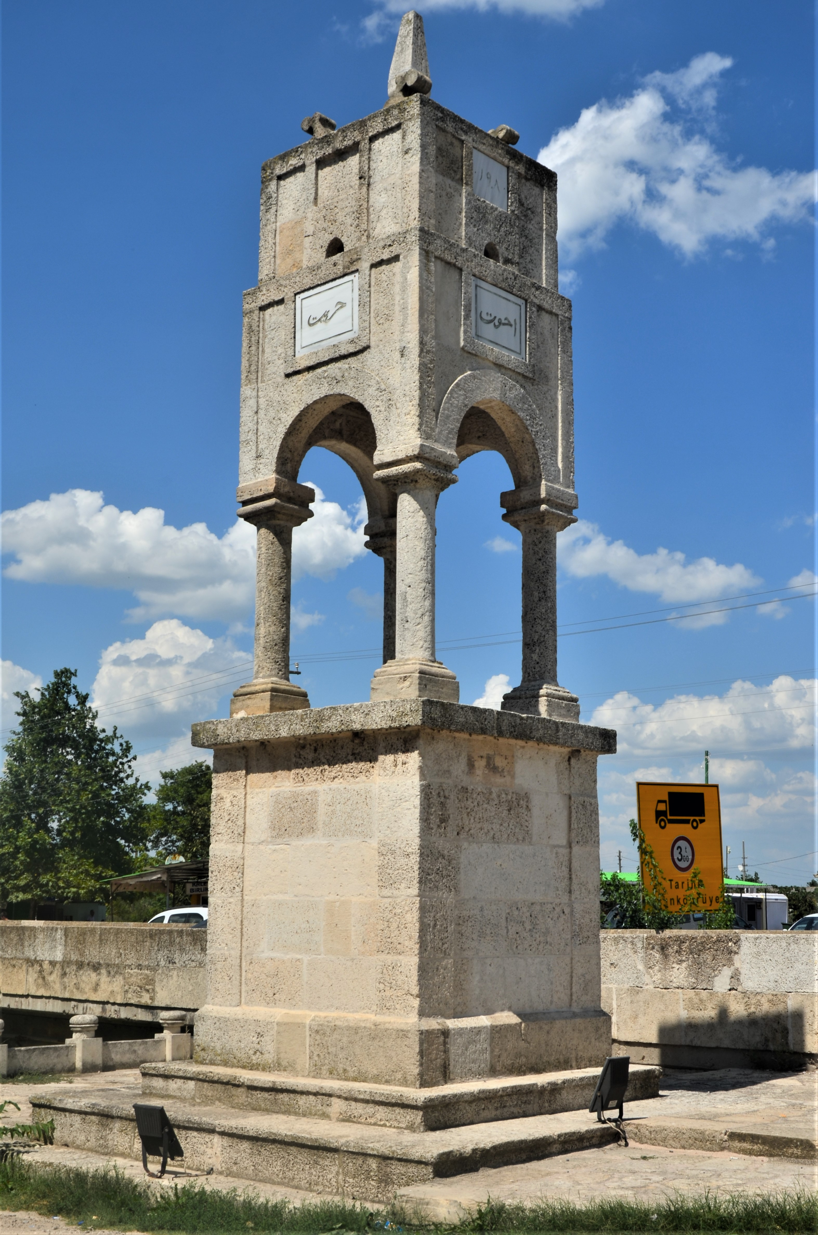 Monument of Liberty (Özgürlük Anıtı) in Uzunköprü, Edirne Province, Turkey